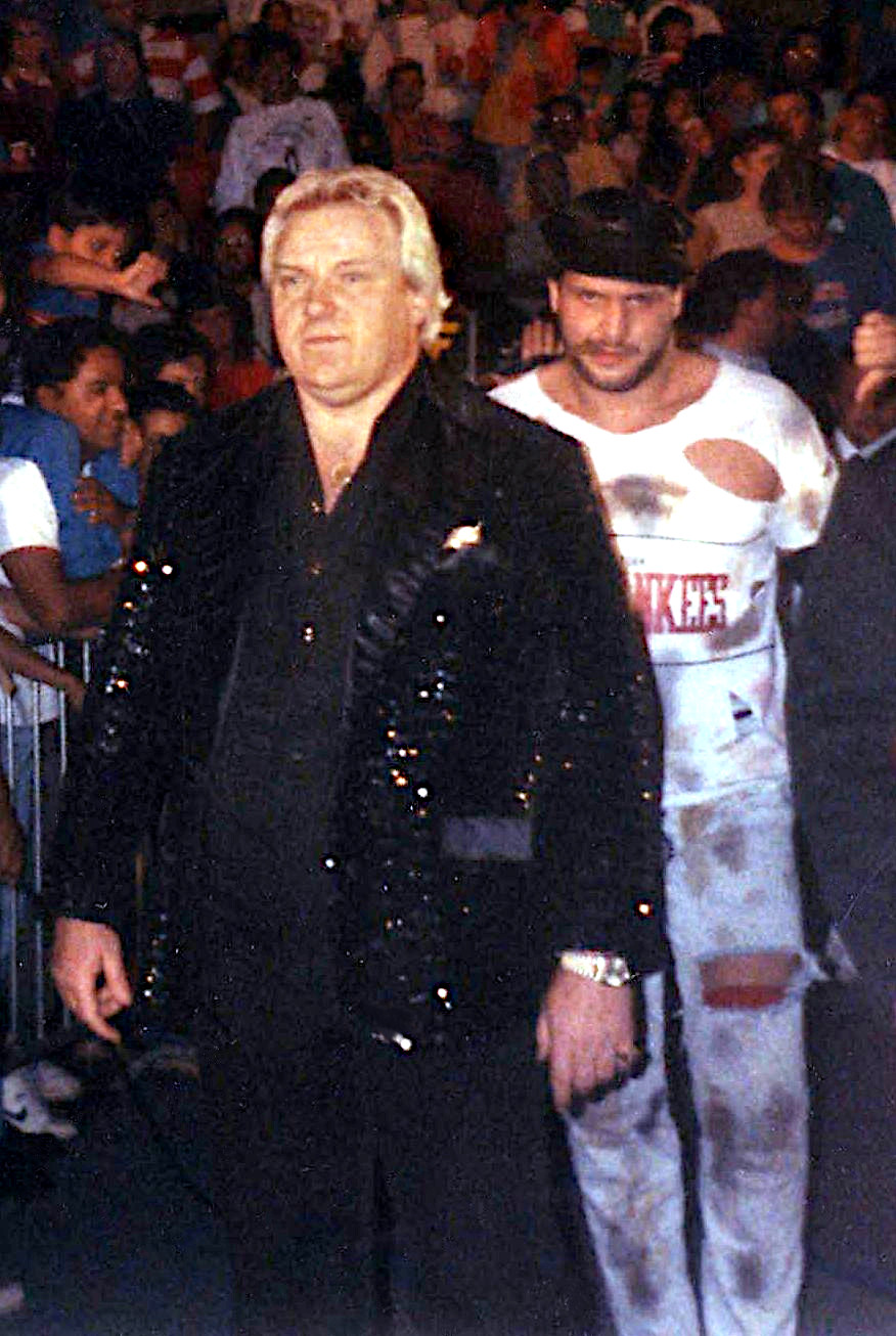 Professional wrestling manager Bobby "The Brain" Hennan leading The Brooklyn Brawler (Steve Lombardi) to the ring.